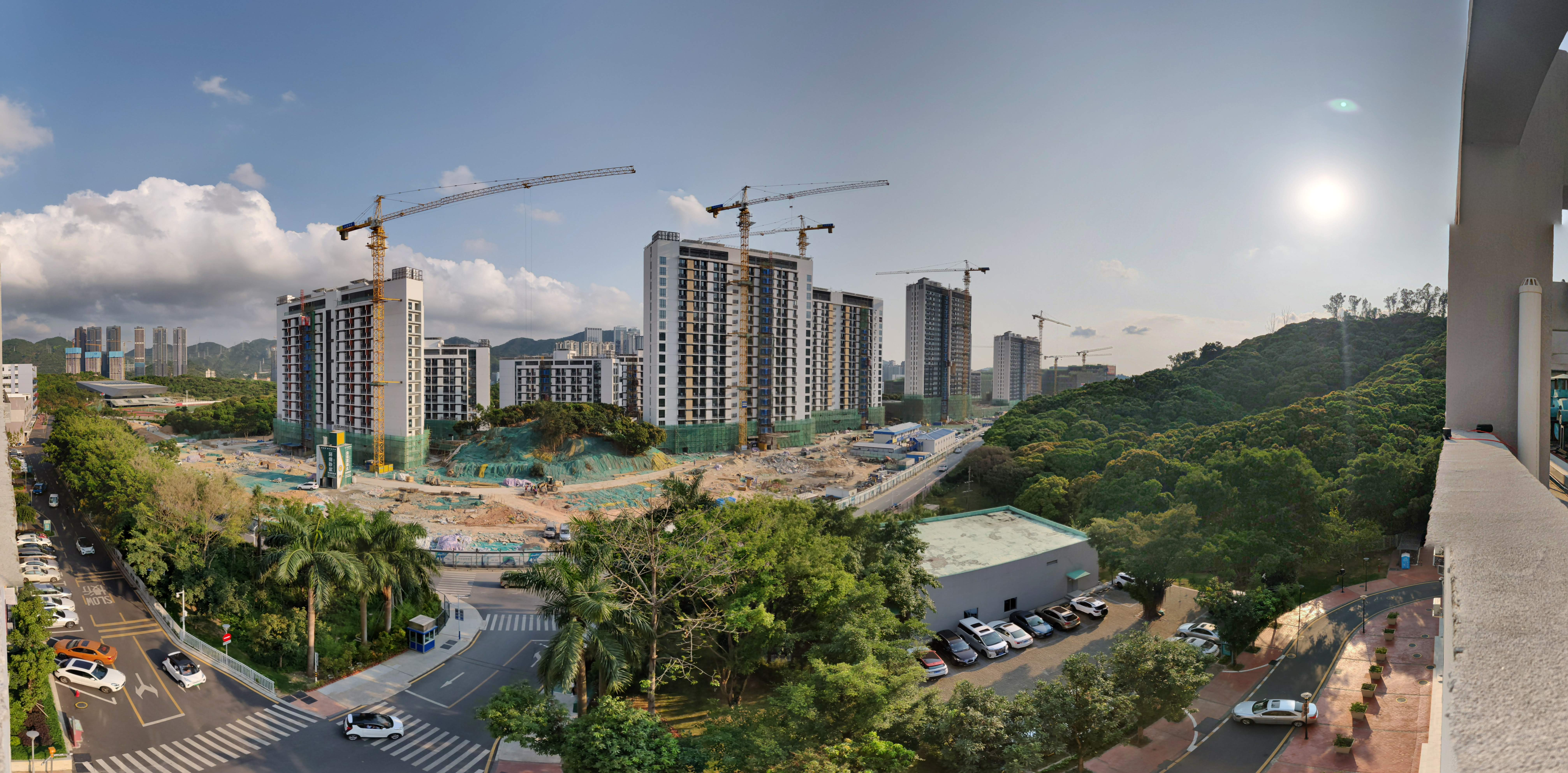 PANO of SUSTech Phase 2 Dorm Section in Apr 2019 Capture from Lychee Hill 1